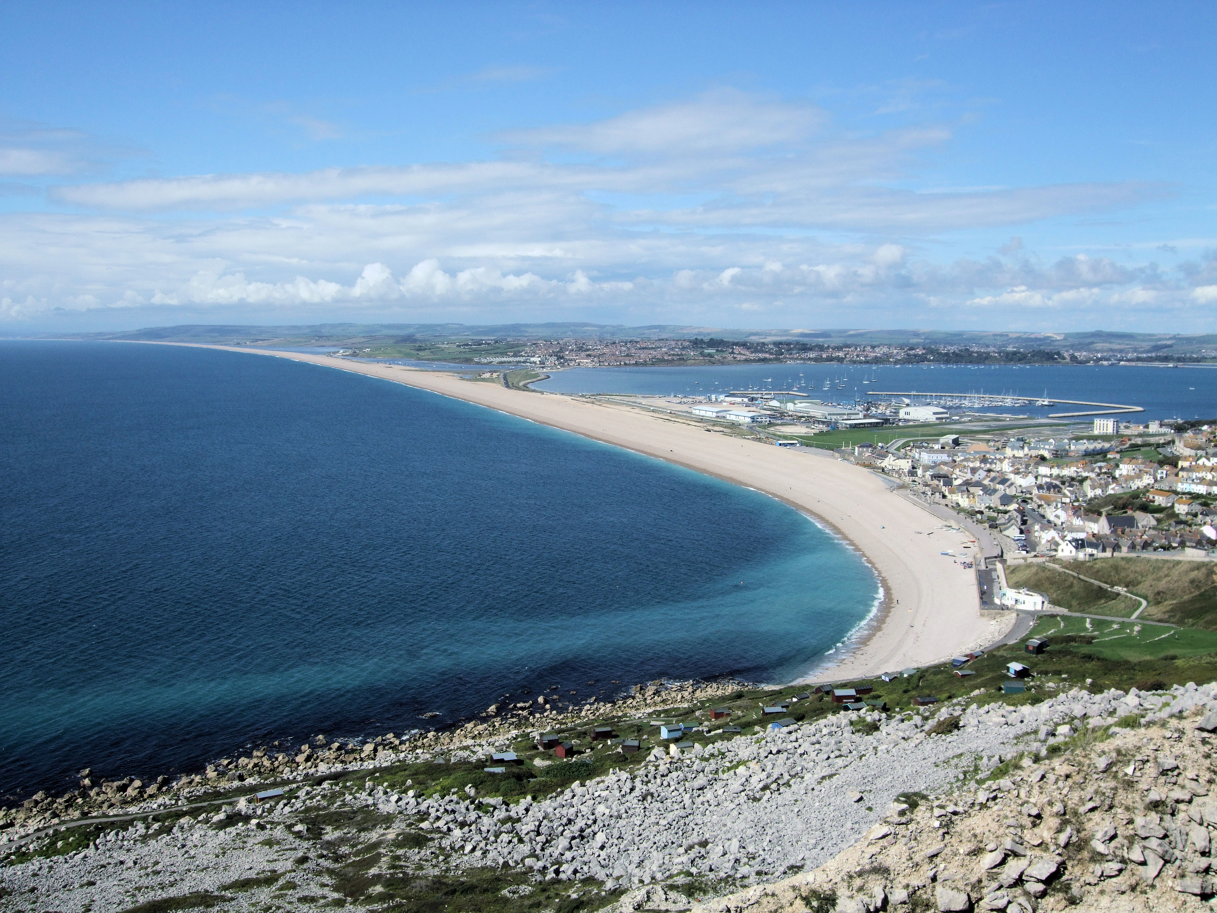 Chesil Beach, sometimes called Chesil Bank, in Dorset, southern England is one of three major shingle structures in Britain. Its toponym is derived from the Old English ceosel or cisel, meaning "gravel" or "shingle".